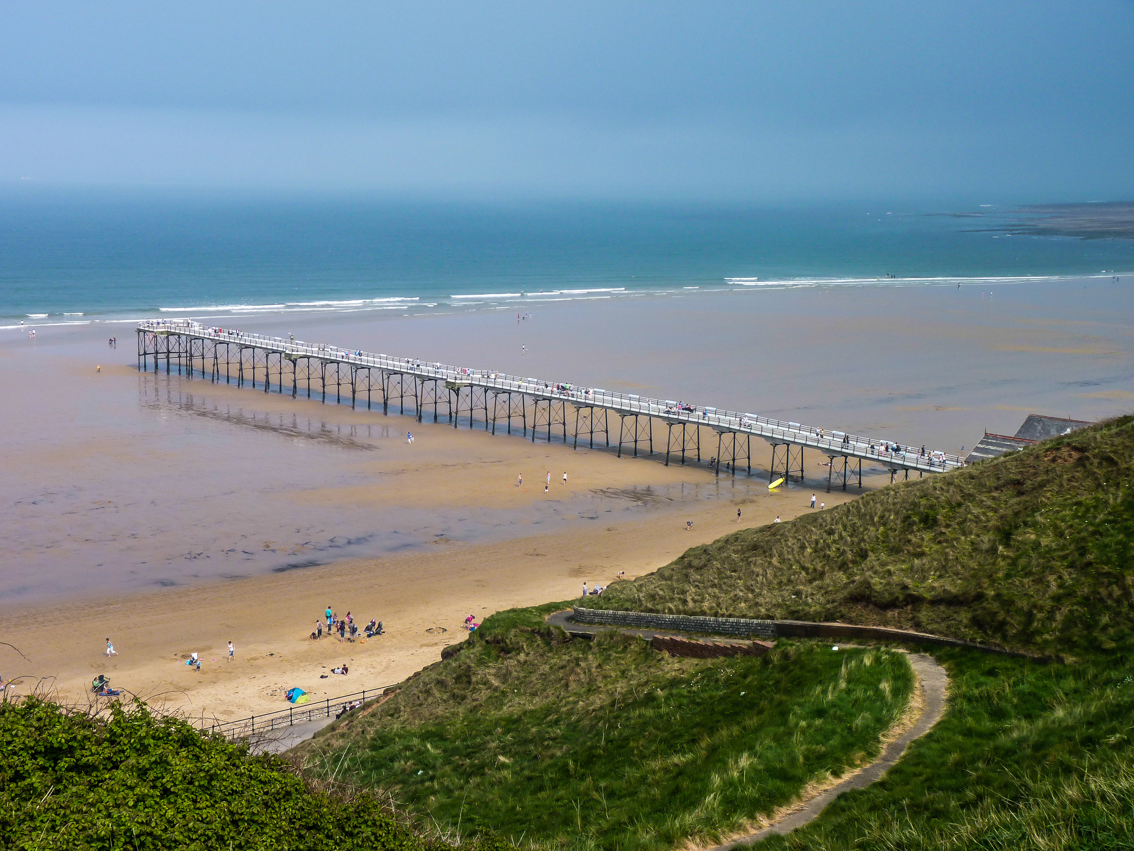 A view of Saltburn Pier taken from the pathway on the hillside.